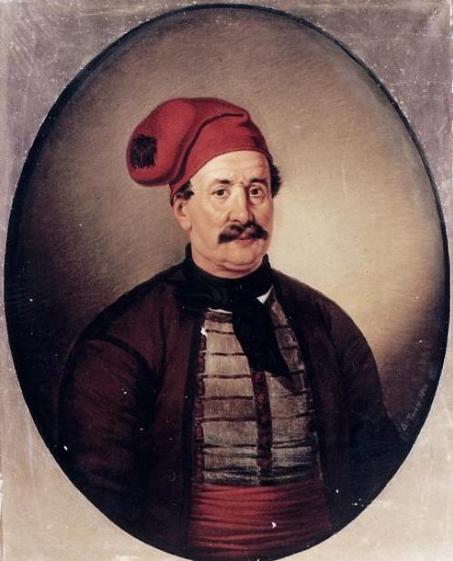 Dimitrios Papanikolis – (Psara 1790-1855 Athens) Greek Fighter of the 1821 Δημήτριος Παπανικολής